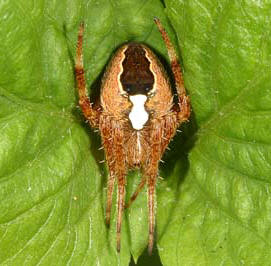 female Neoscona scylla from Okinawa.